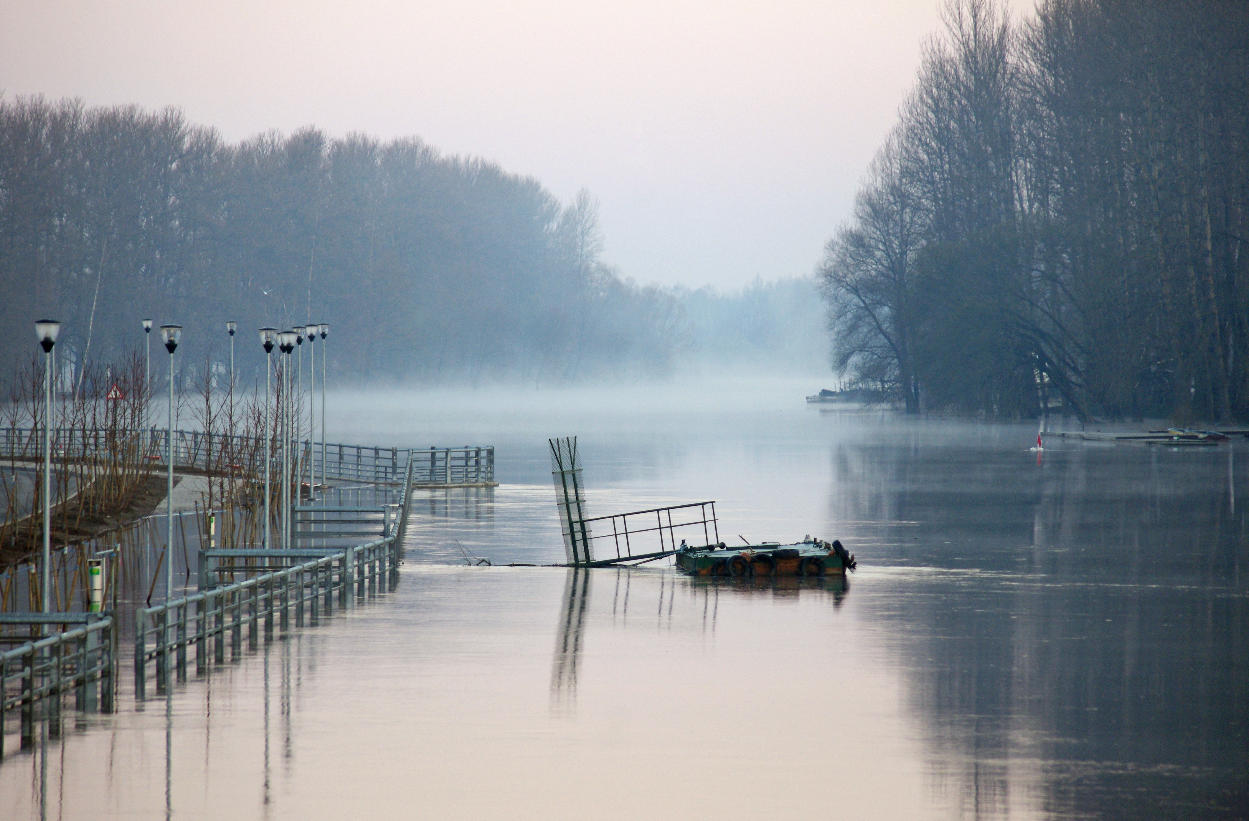 Spring Flood in Tartu, 2011